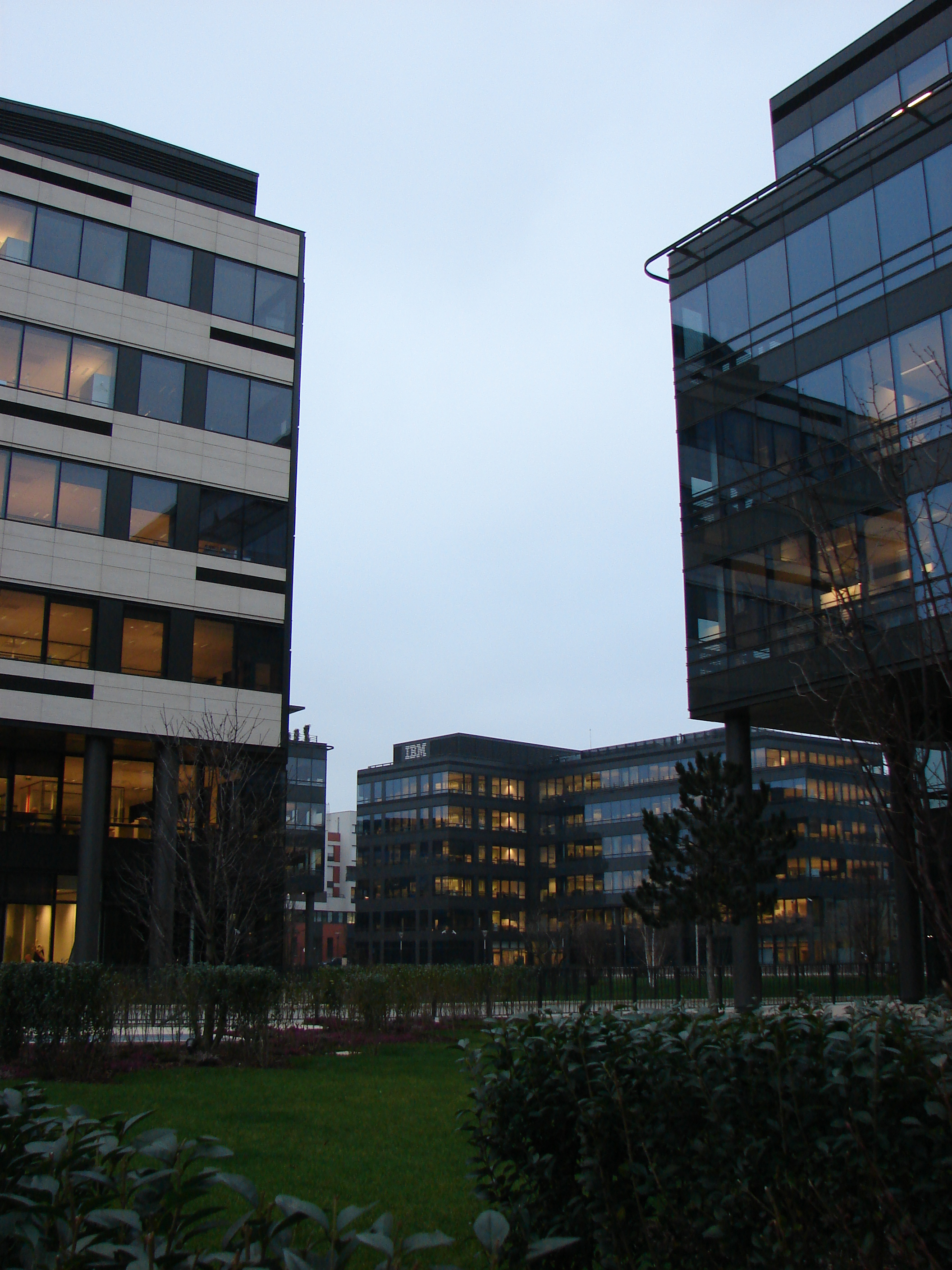 IBM France headquarters at Bois-Colombes